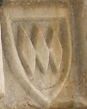 Coat of Arms of the dukes of Naxos. Naxos (Chora).